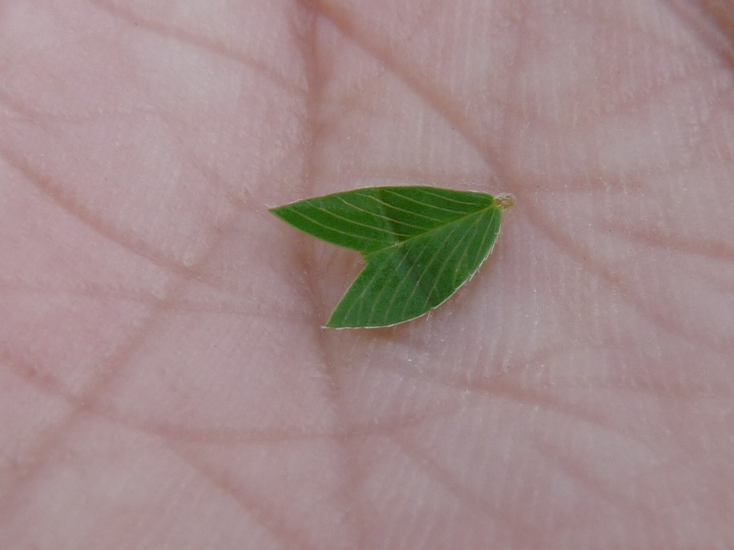 Kummerowia striata (Lespedeza striata)